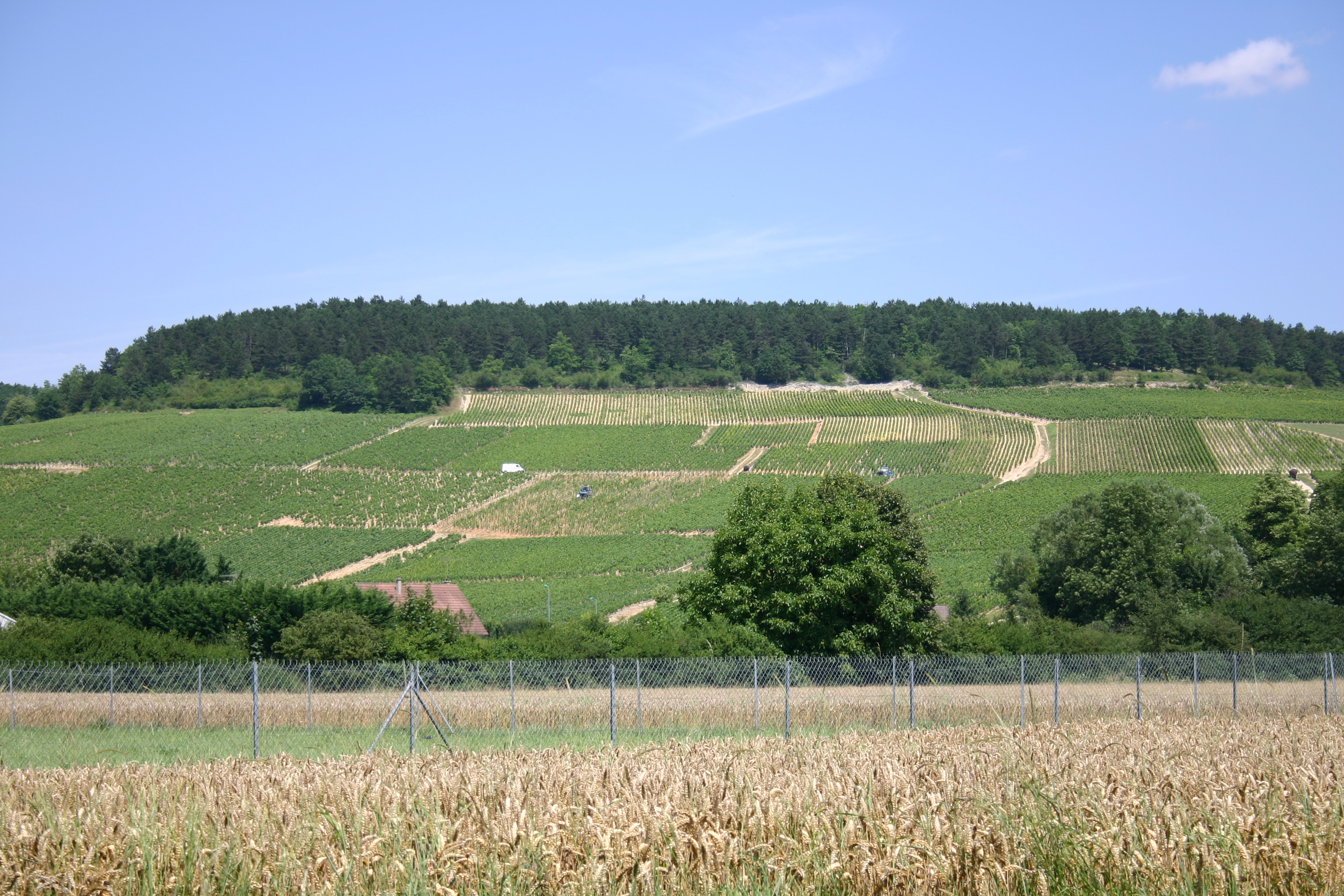 Vineyards in the French wine region of Chablis near Yonne. Predominantly planted with Chardonnay grapes.